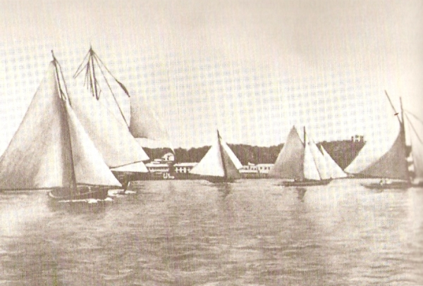 Bermuda working boats being used for sail racing in the 19th Century. The boats use the Bermuda rig (the two at right use the Gaff rig, also featured in the larger Bermuda sloop, and in the type of dedicated racer known as a Bermuda Fitted Dinghy. Compare to similar image Image:Bermuda_sloop_work_boat.jpg. Scanned from the book Sailing In Bermuda: Sail Racing in the Nineteenth Century by J.C. Arnell (LC Control No. 82243921). Book credits E. M. Gosling for this photo.